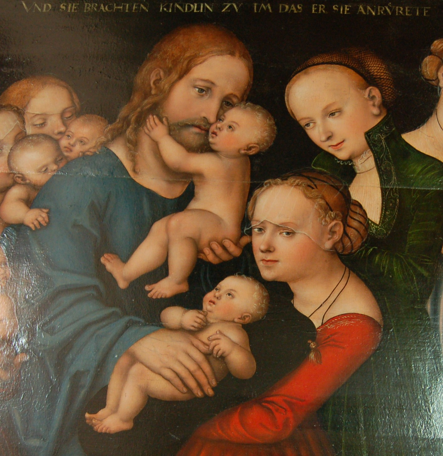 Detail of a painting made by Lucas Cranach (the older) - in Larvik church, Norway